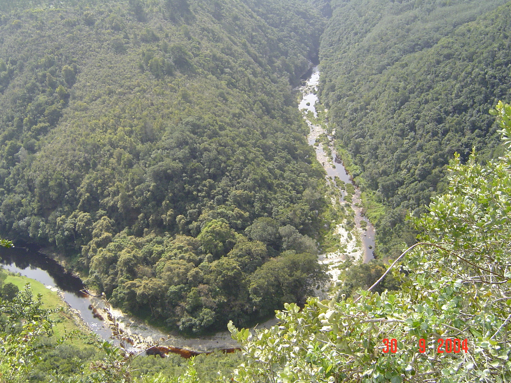 Map of Africa shape in the Kaaimansgat River